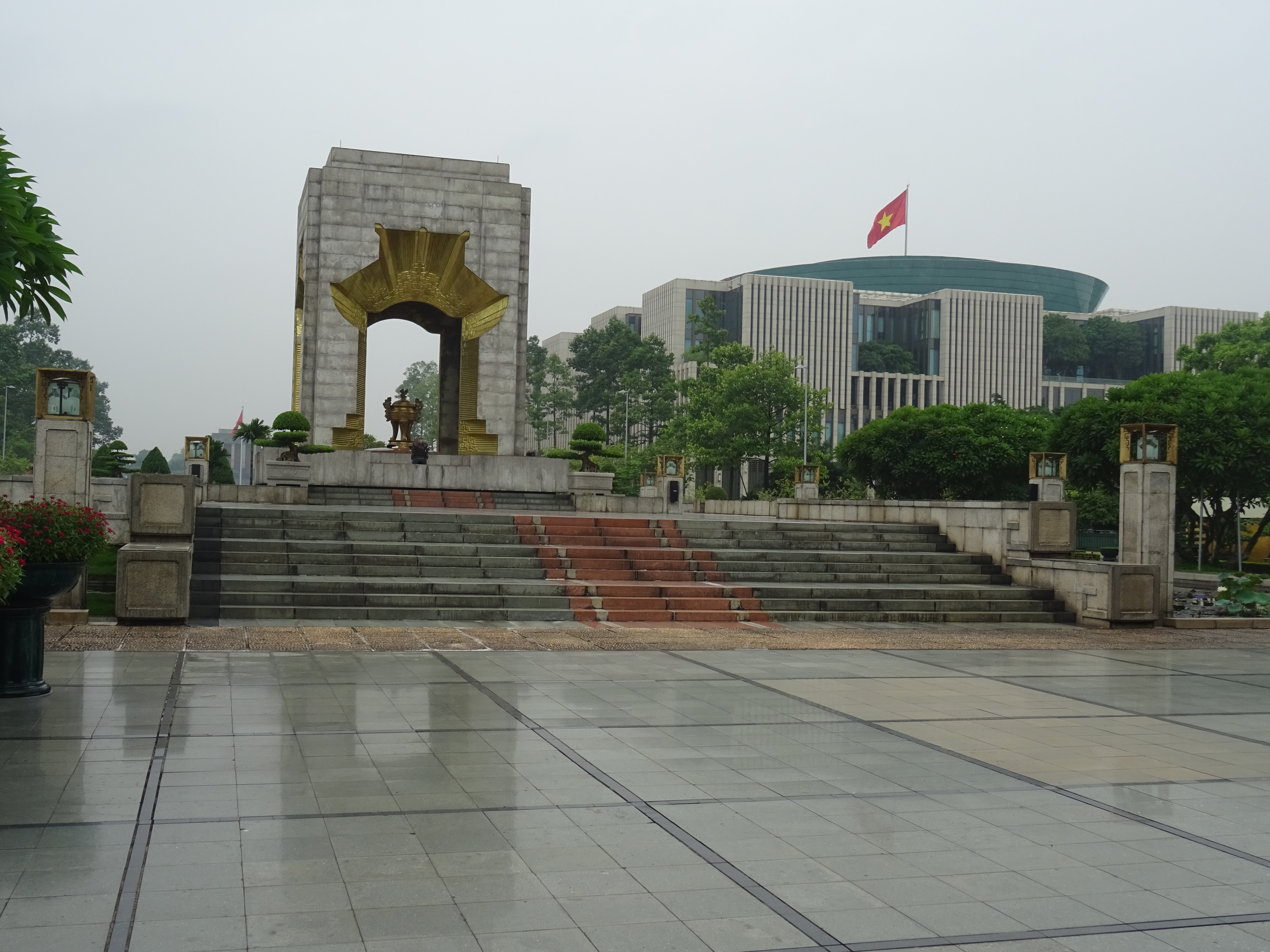 The Vietnam War Memorial and the National Assembly Building in Hanoi.